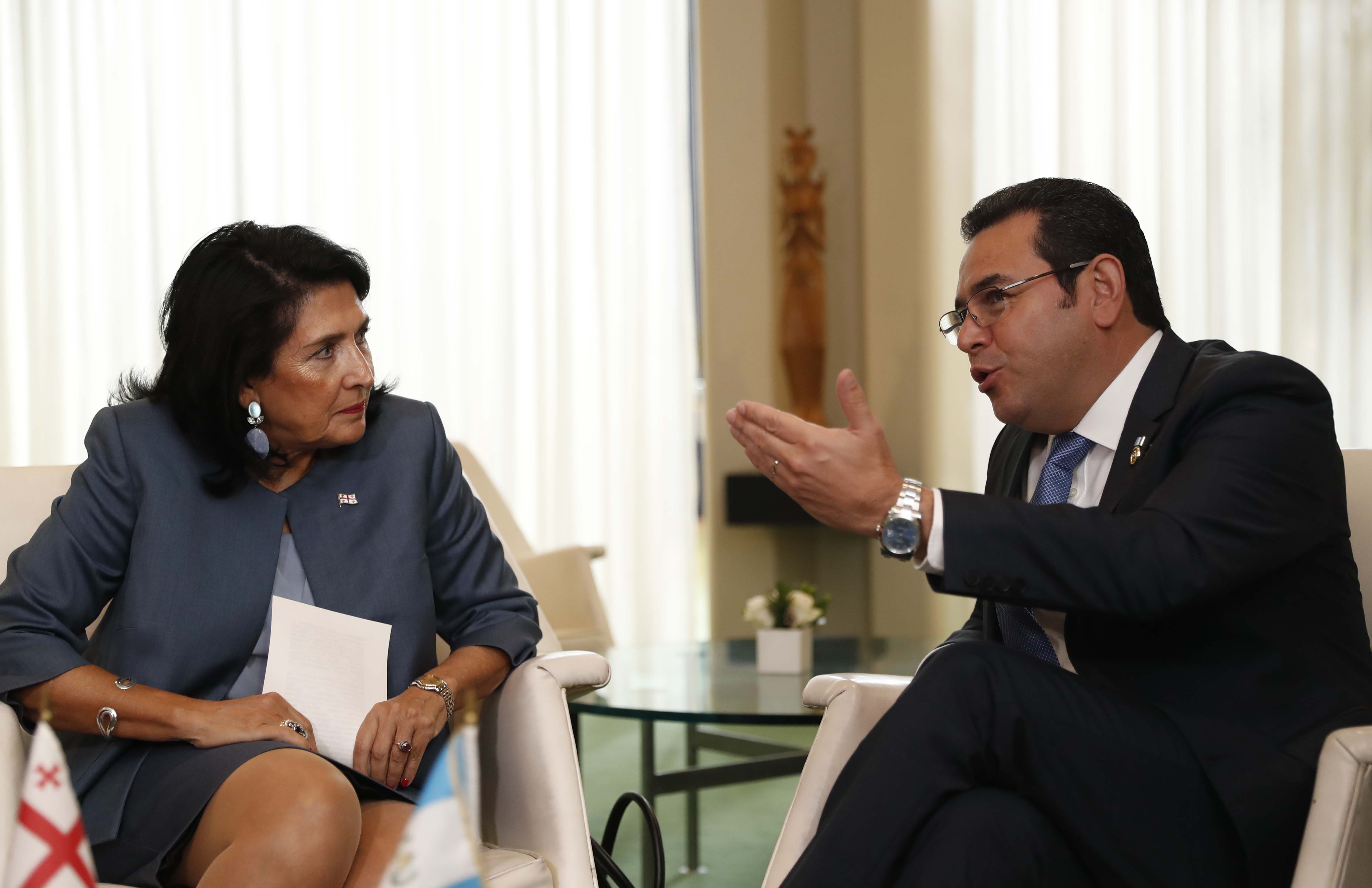 Georgian President Salome Zourabichvili and Guatemalan President Jimmy Morales meeting on the sidelines of the 74th UN General Assembly